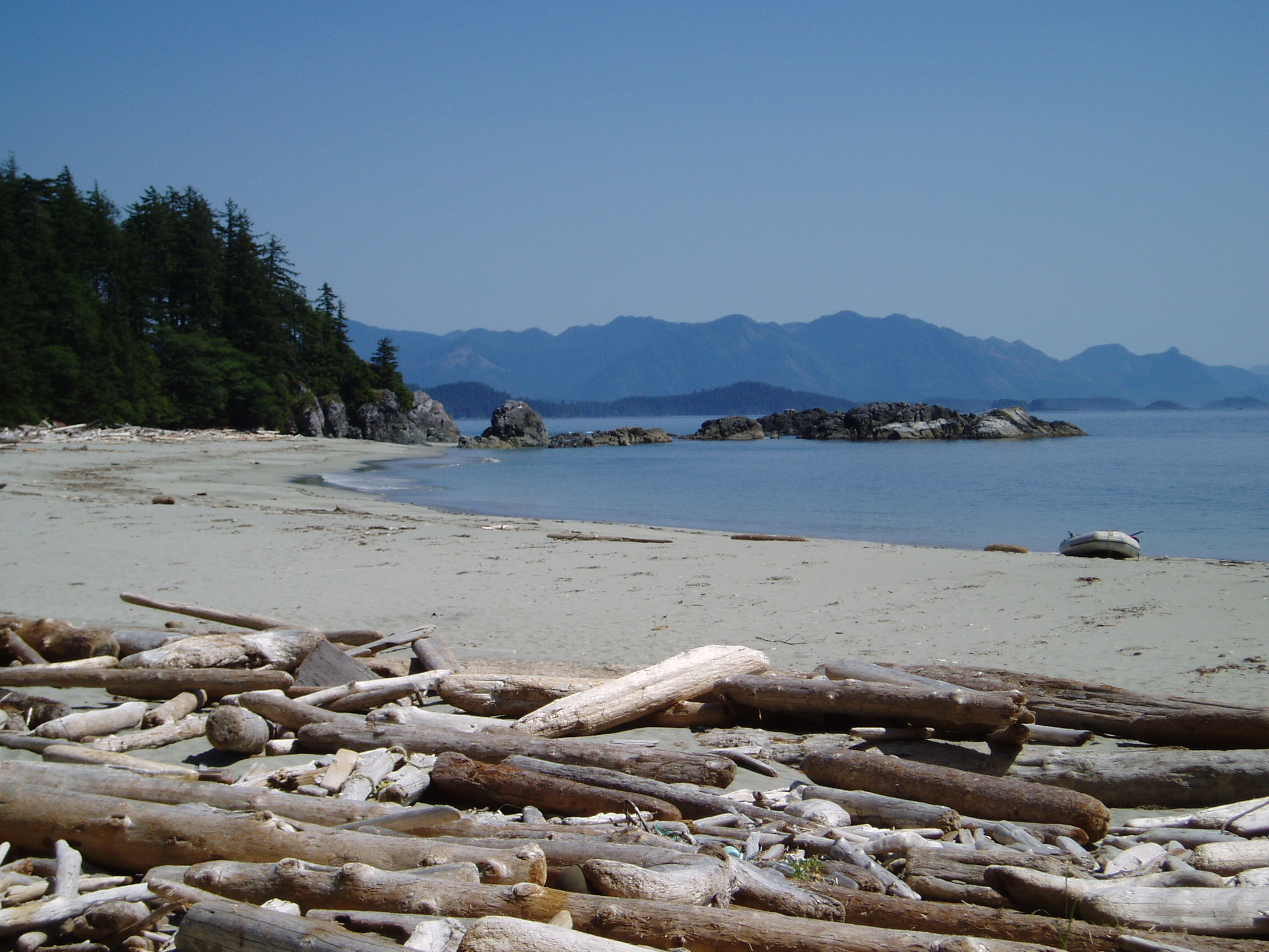 deserted beach on southern coast of Brooks Peninsula, West coast of northern Vancouver Island, BC, CA